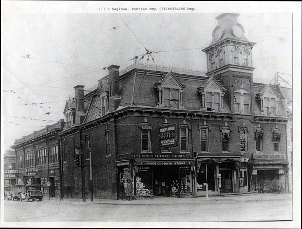 I am the webmaster for the City of Pontiac . This image is owned by the Pontiac Historic District and has authorized it use as it is to be used for an entry that is a benefit to the City of Pontiac.